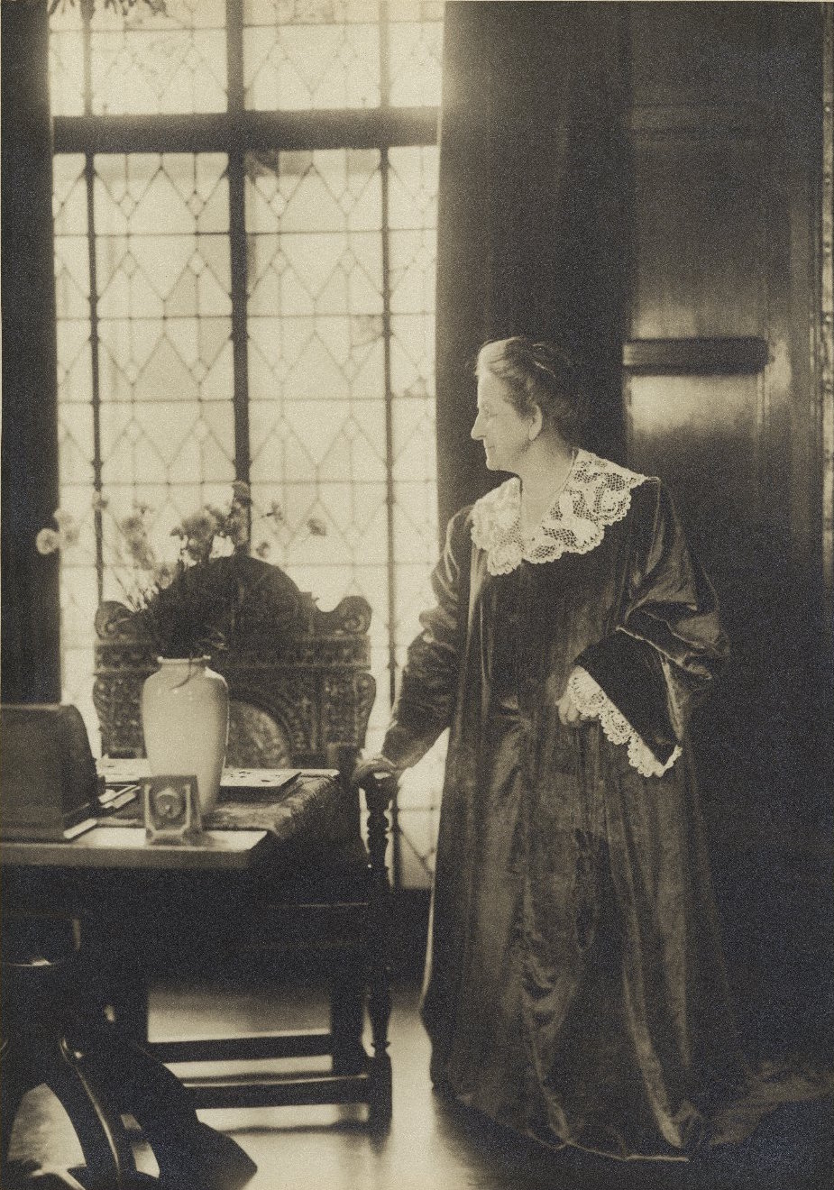 Emily Jordan Folger standing in the Founders' Room of the Folger Shakespeare Library, in Julia Marlowe's Portia (The Merchant of Venice) costume